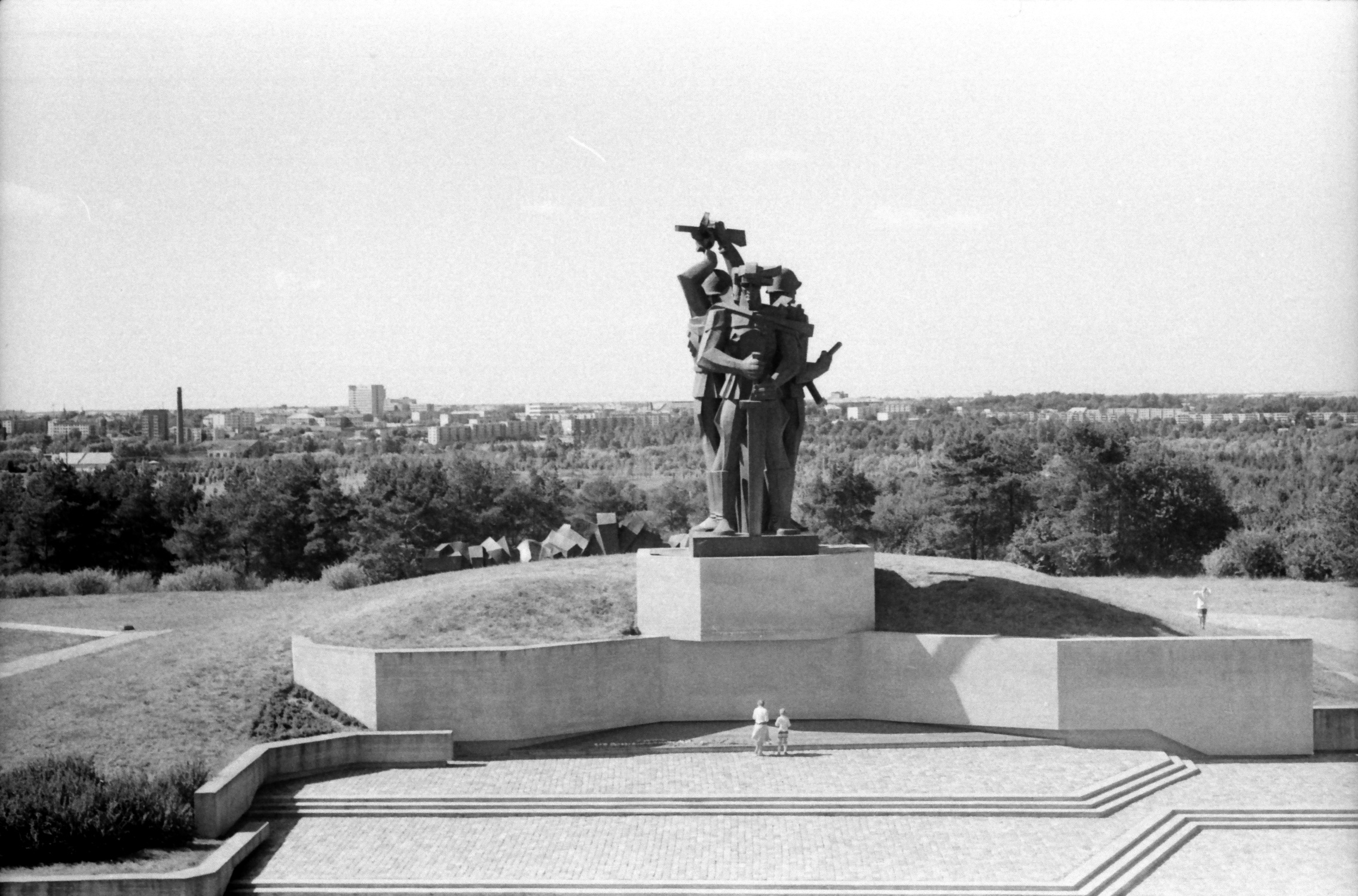 Monument of battles in Šiauliai land 1236-1945, Salduvė hillfort, 1983, Lithuania. Destoyed in 1990.